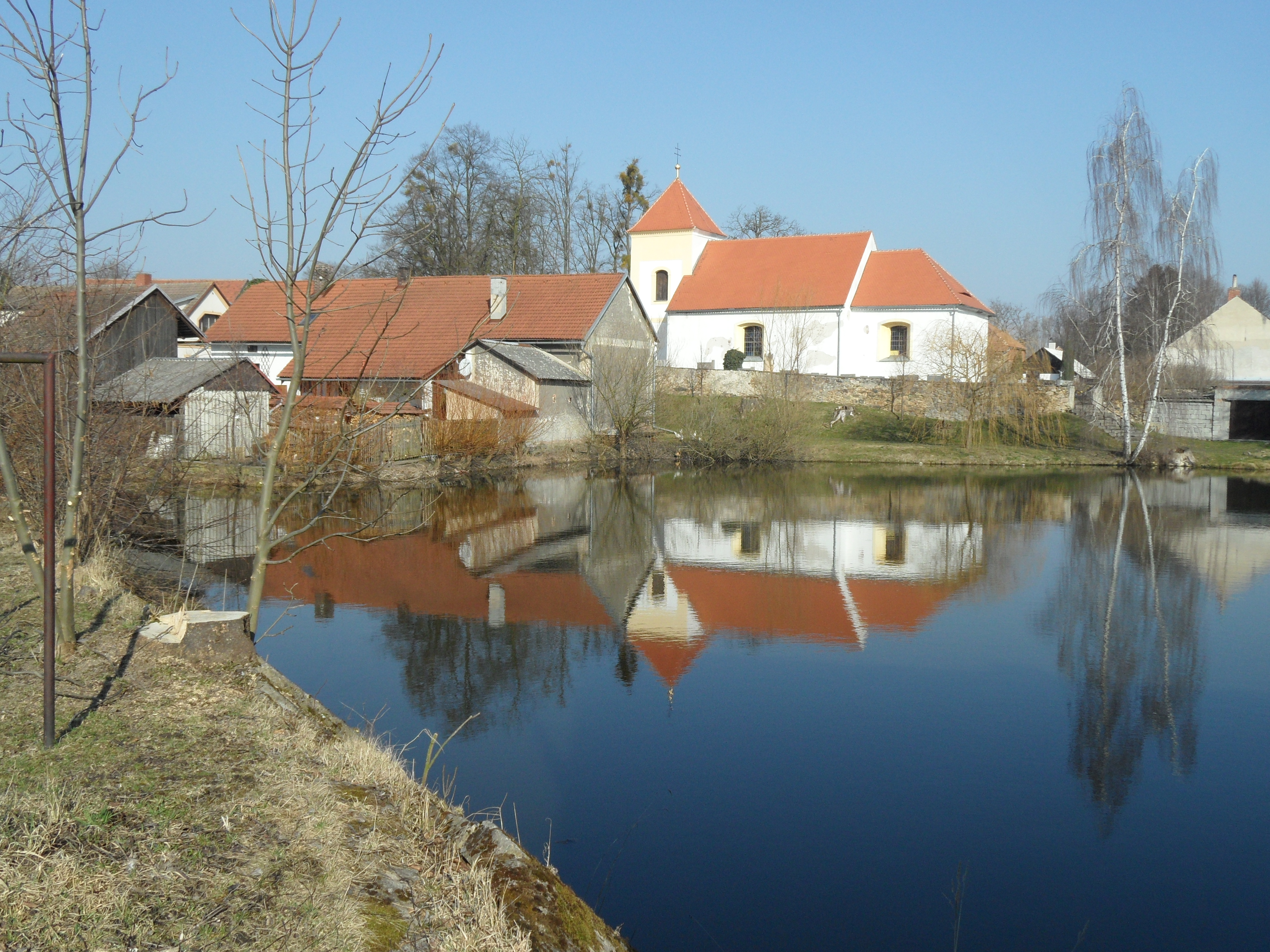 Kozohlody A. Church of All Saints and the Pond. Havlíčkův Brod District, the Czech Republic.